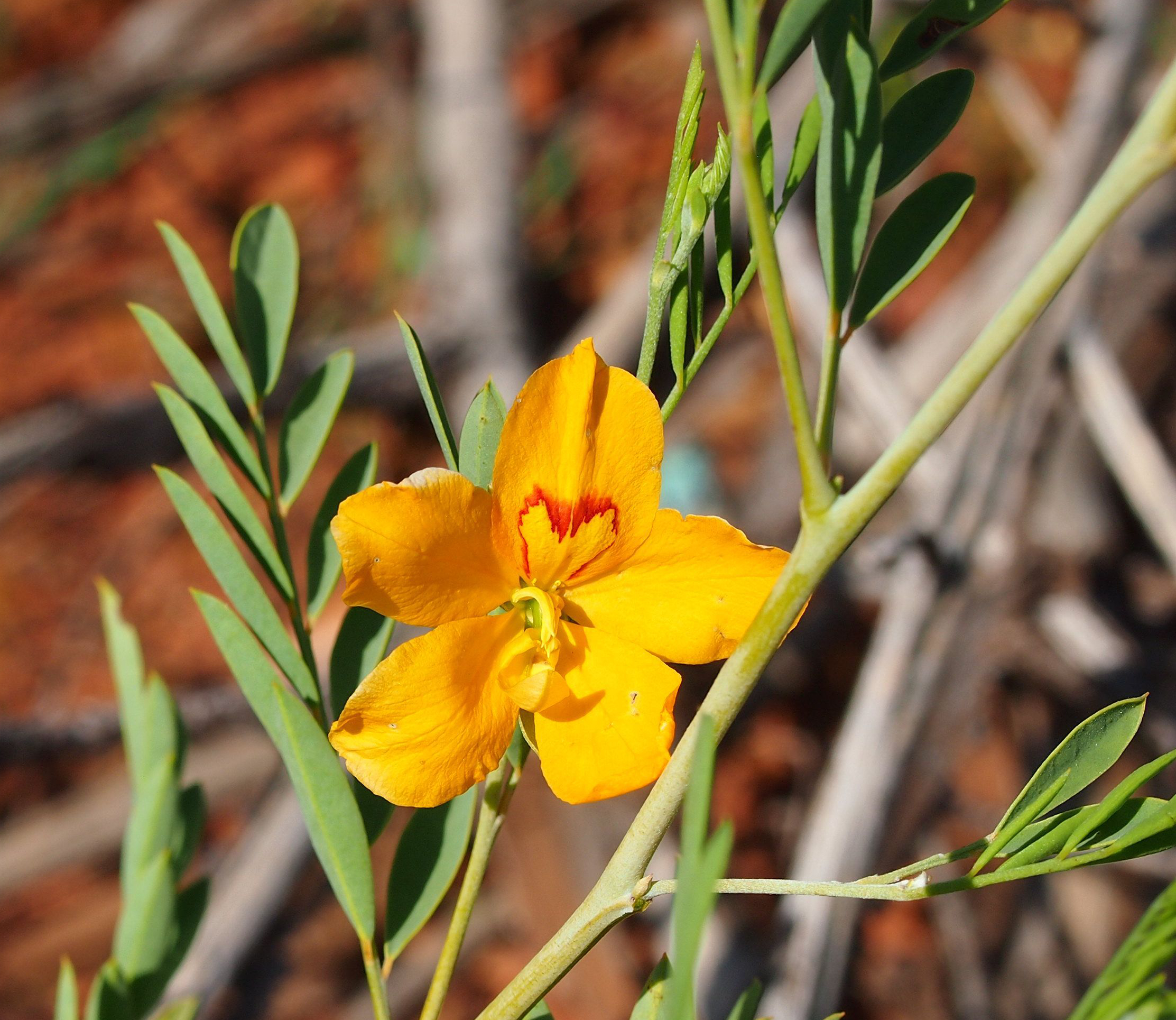 Petalostylis labicheoides flower